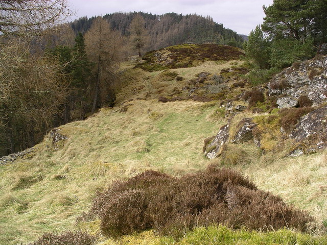 Fort remains on Dun-da-Lamh. Not much left, but still some earthworks and walls to see.